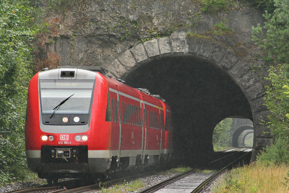 A DB class 612 as Franken-Sachsen-Express (Franconia-Saxony-Express), headed for Dresden, near Velden